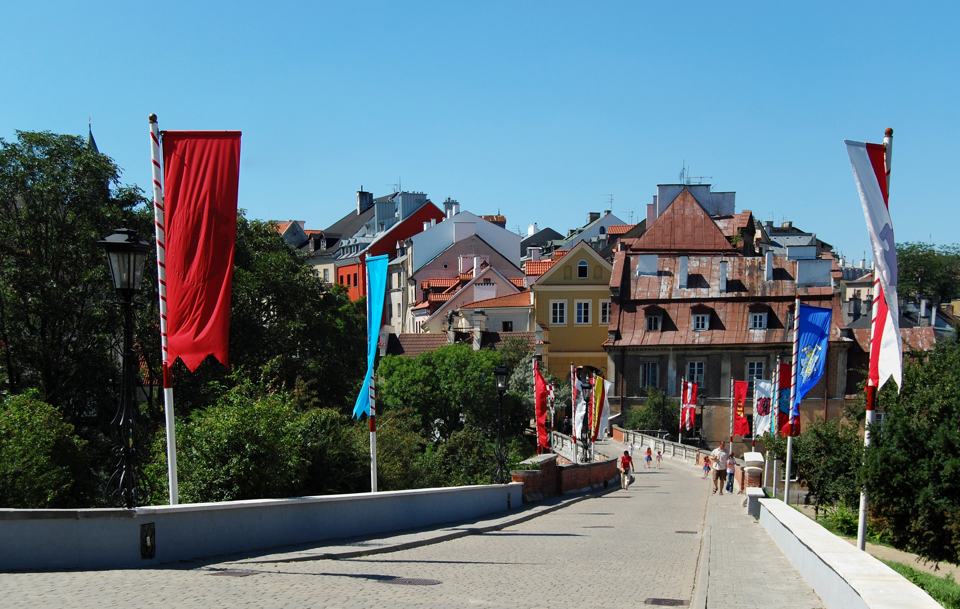 View to the old town of the city of Lublin, Poland.